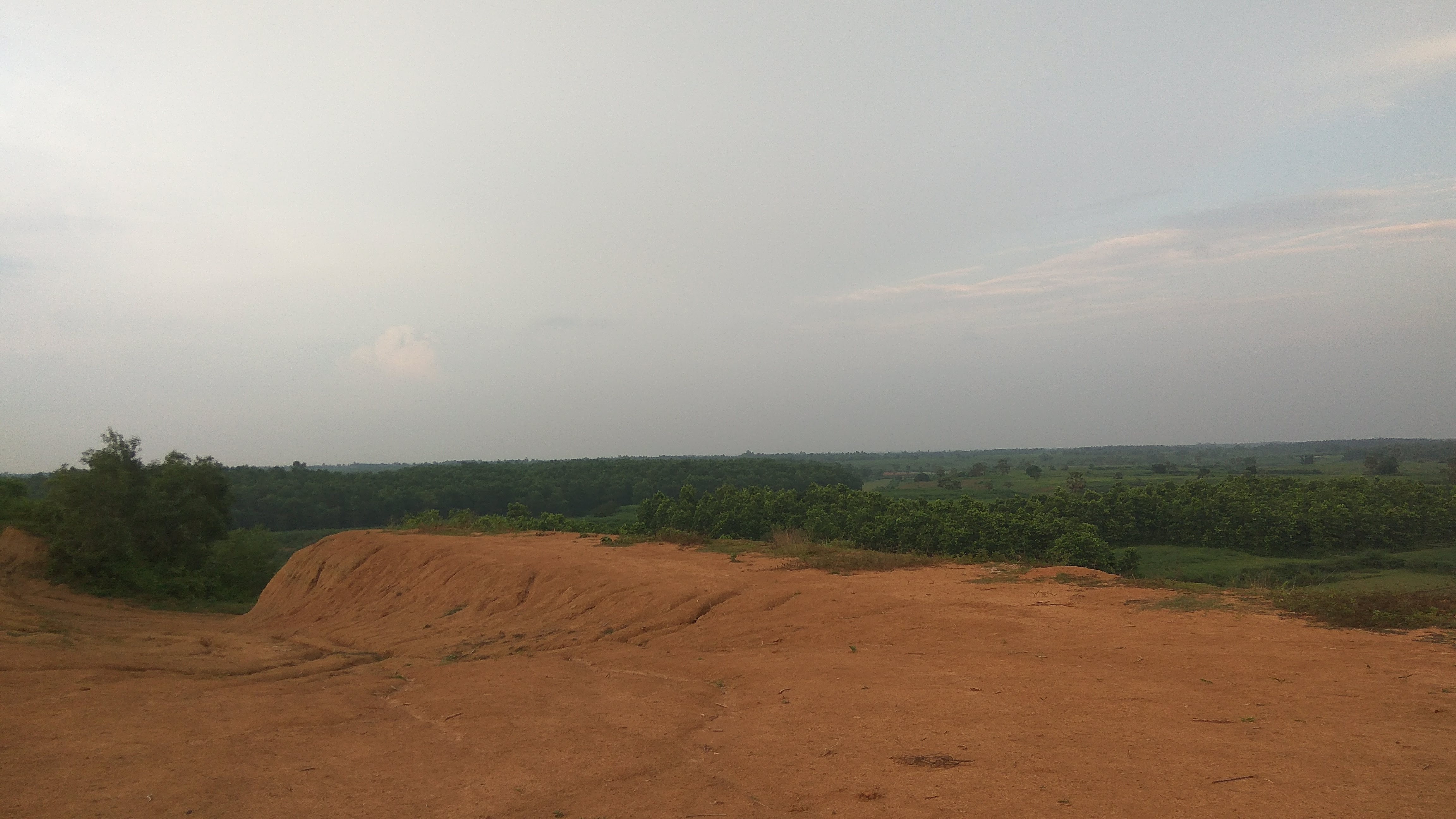 Nature of Ghatail Upazila